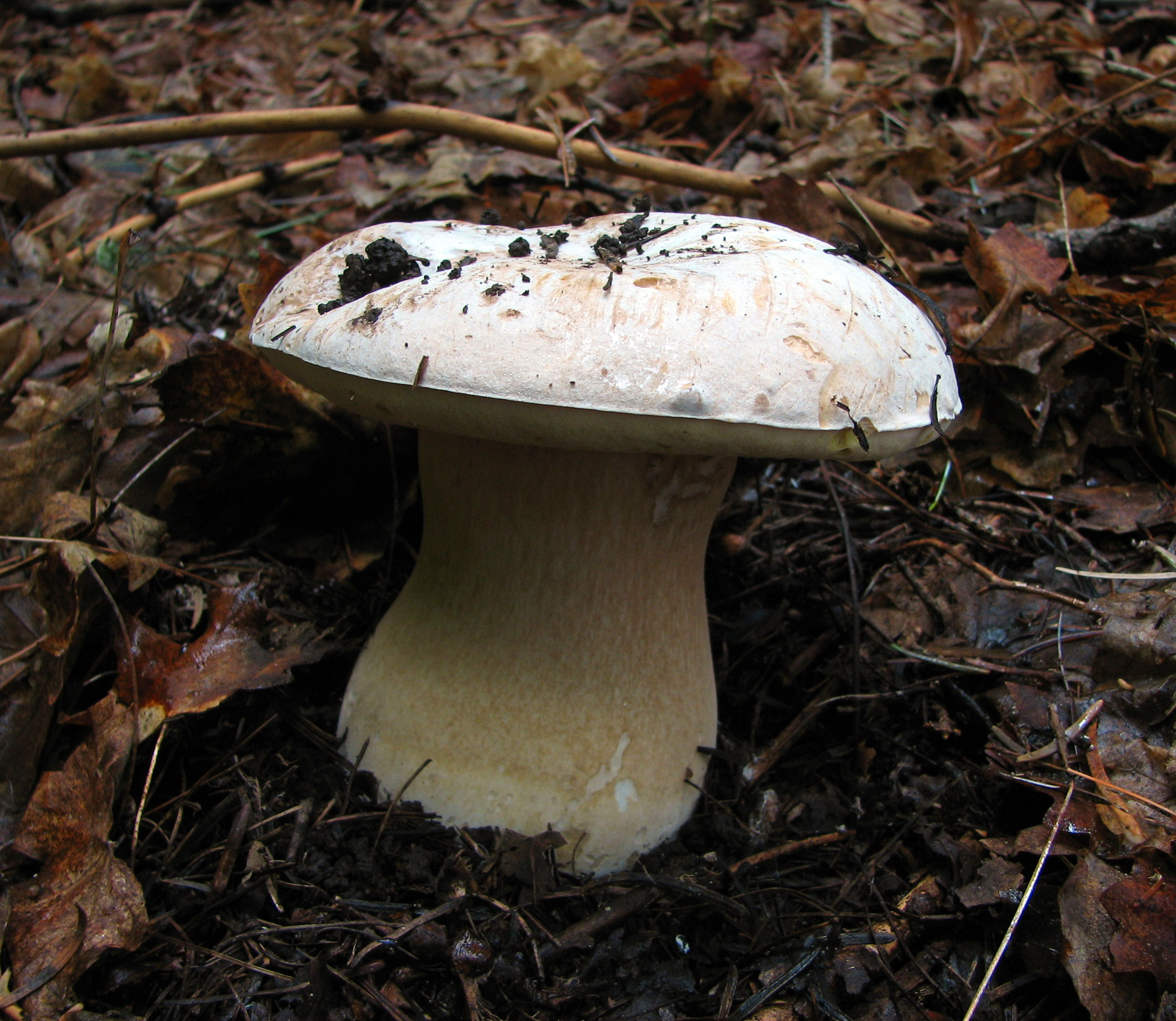 Boletus barrowsii, Mt. Lemmon near Tucson, Arizona, USA. 13 July 2006.